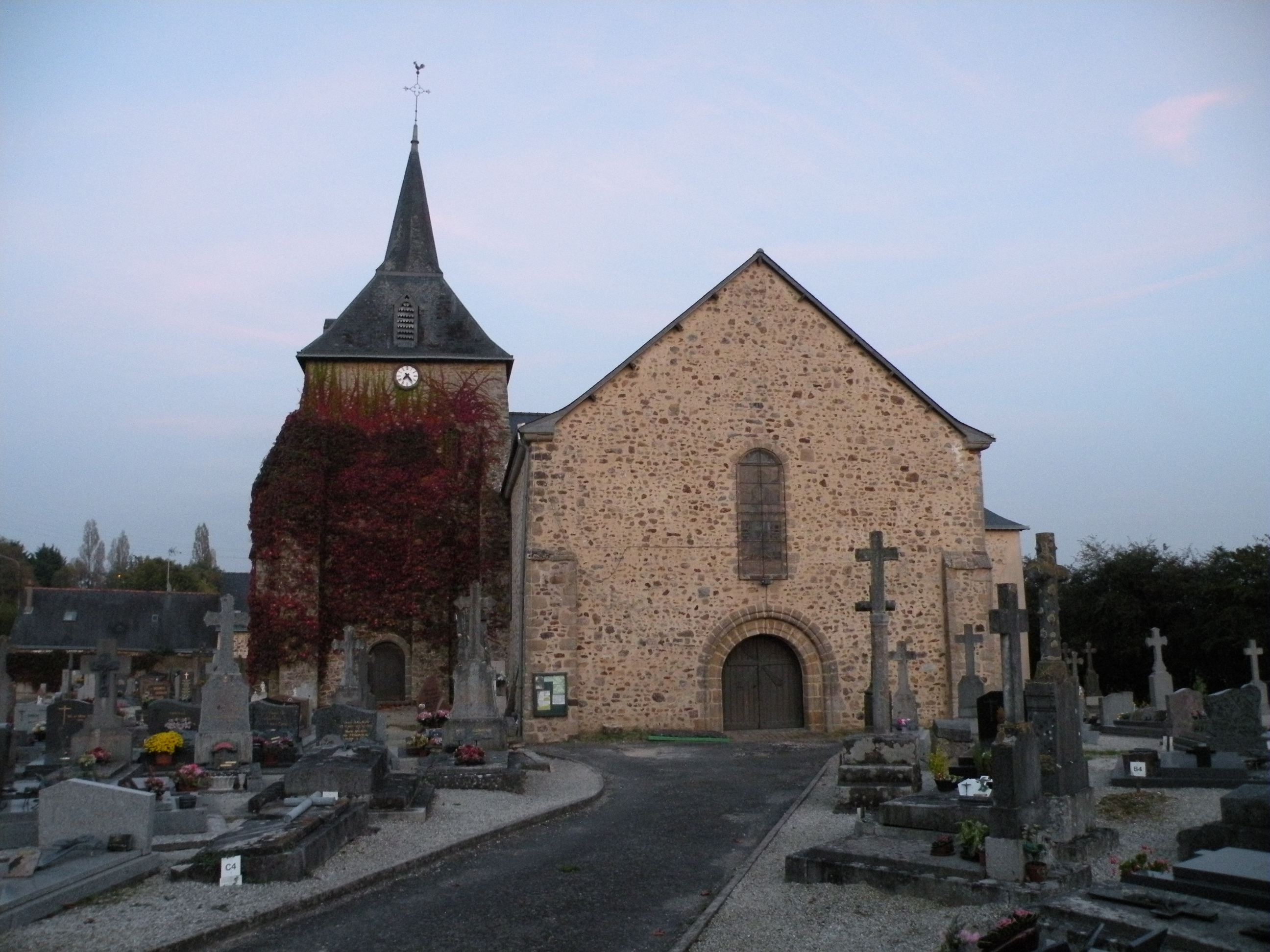 Church of La Gravelle.